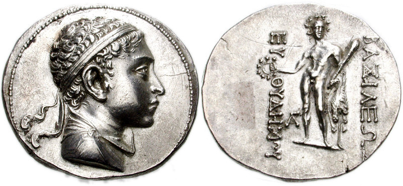 Euthydemos II. Circa 185-180 BC. AR Tetradrachm (30mm, 16.68 g, 12h). Diademed and draped bust right / BASILEWS EUQUDHMOU, Herakles standing left, holding wreath, club, and lion skin; monogram to inner left.